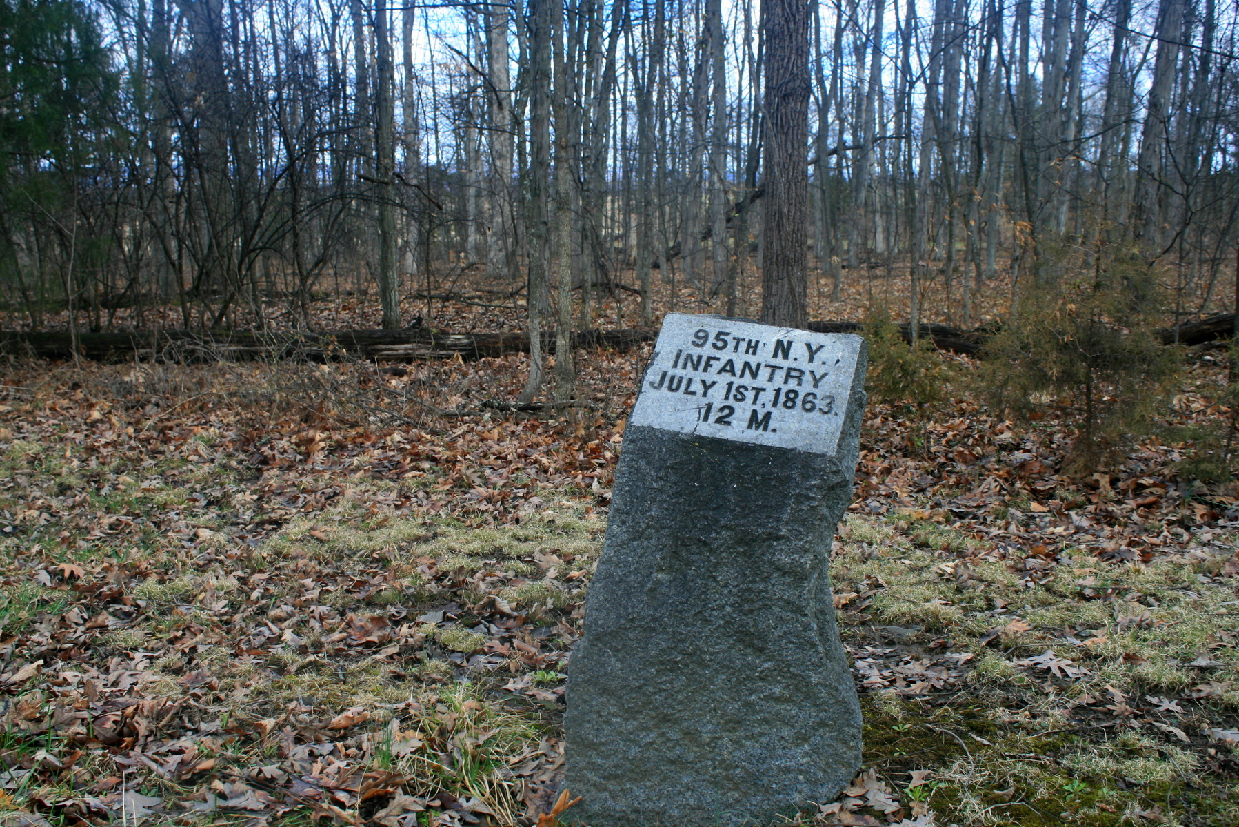 Gettysburg, position of 95 NY regiment. Note: The marker sits at the very south end of Doubleday Avenue where it becomes Wadsworth Avenue. It shows the 95th position about noon on July 1, 1863